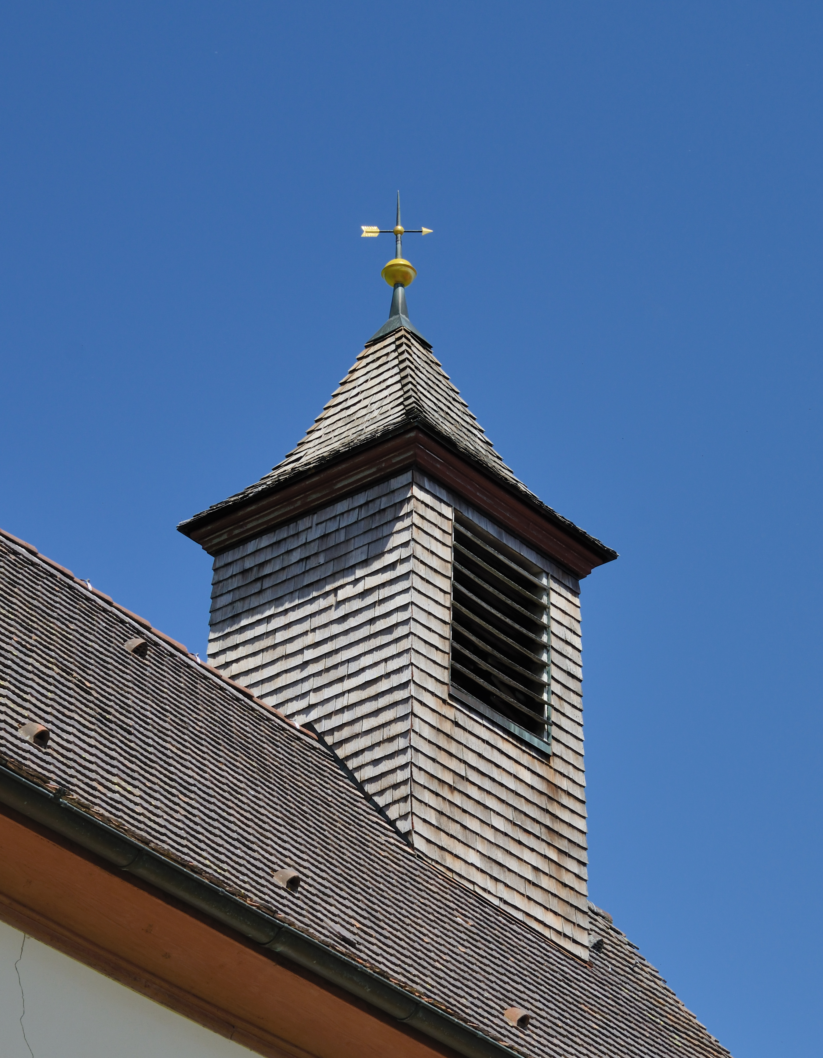 Gresgen: Protestant Church